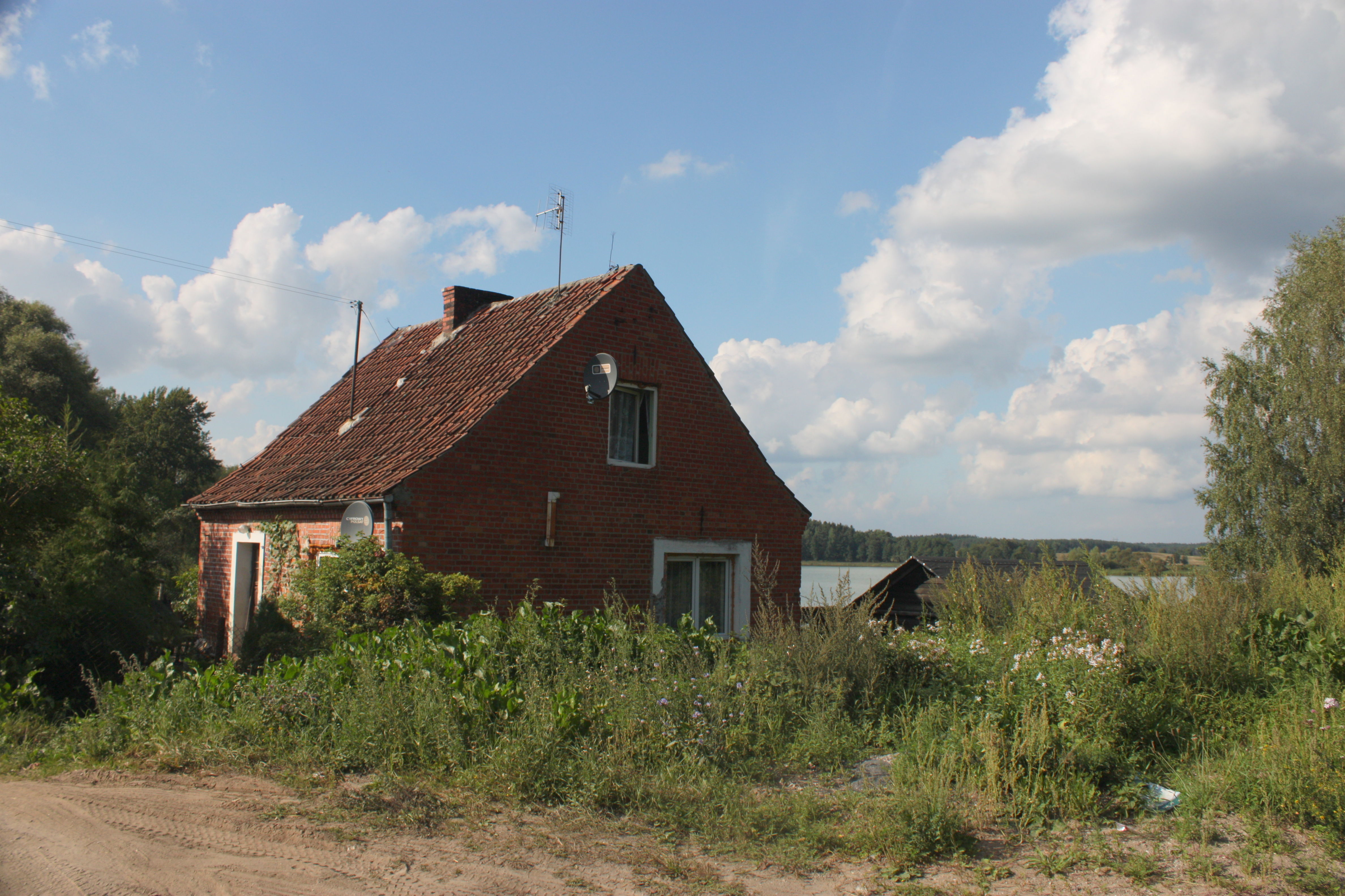 Building in Rusek Wielki.